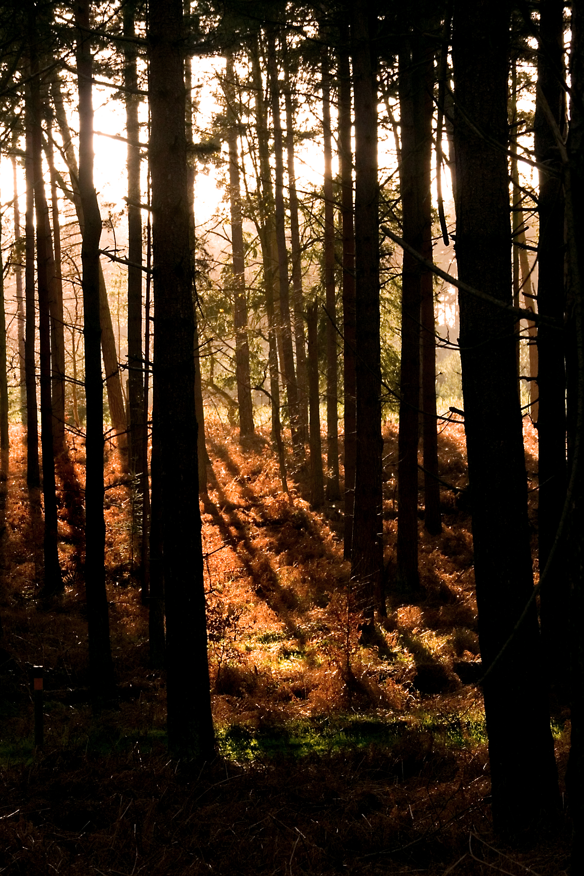 Thetford Forest on New Years Day 2007